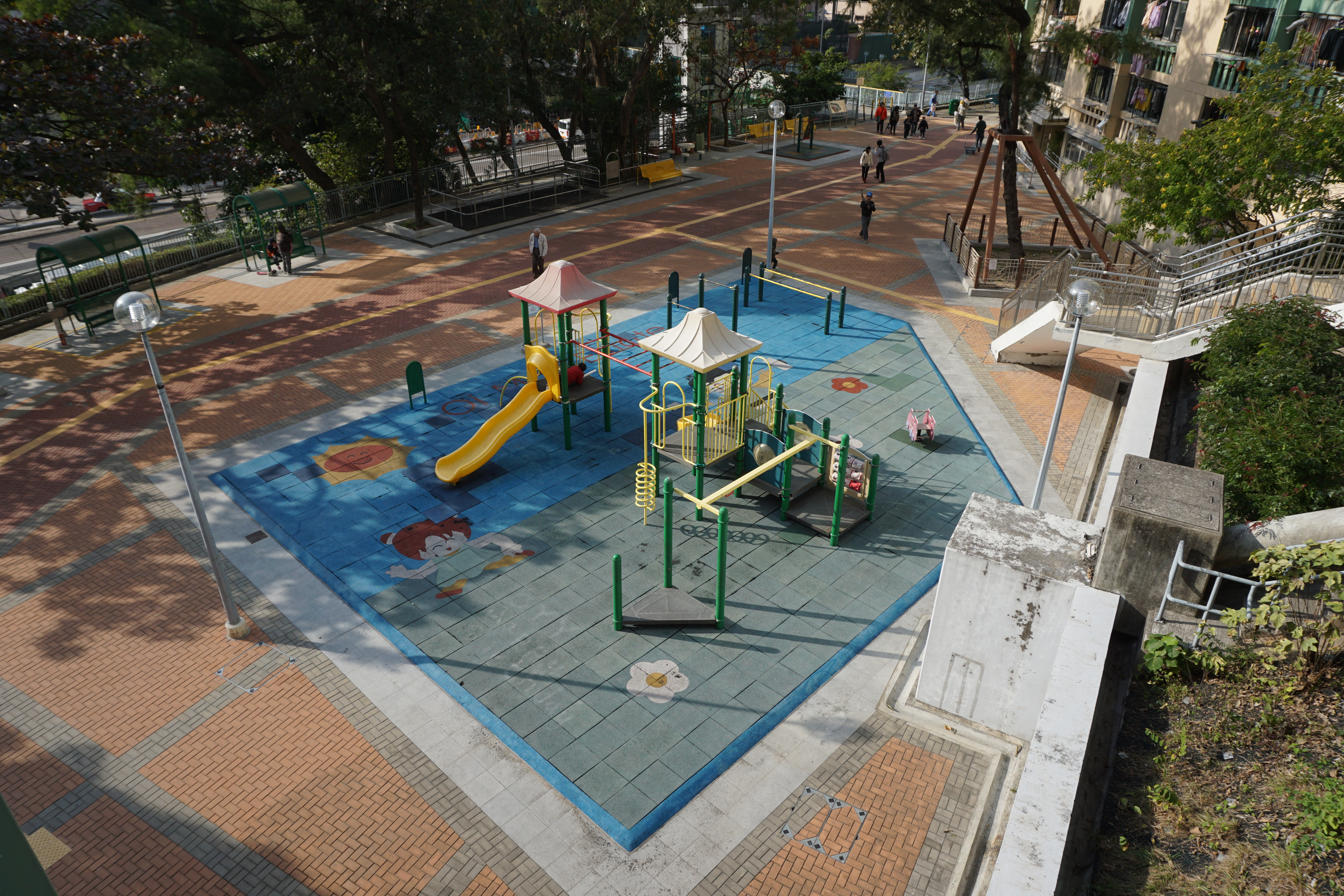 Oi Man Estate in Ho Man Tin, Hong Kong.